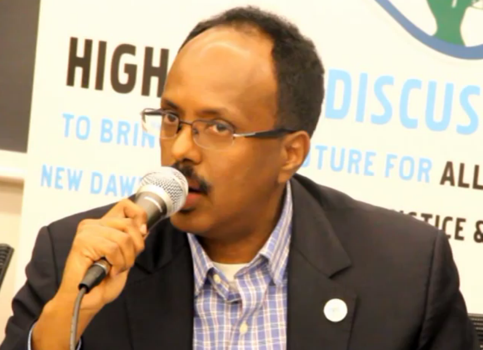 Somali diplomat, professor and politician Mohamed Abdullahi Mohamed "Farmajo", former Prime Minister of Somalia and founder and Secretary-General of the Tayo Political Party, Farmaajo currently is President of the Federal Republic of Somalia.